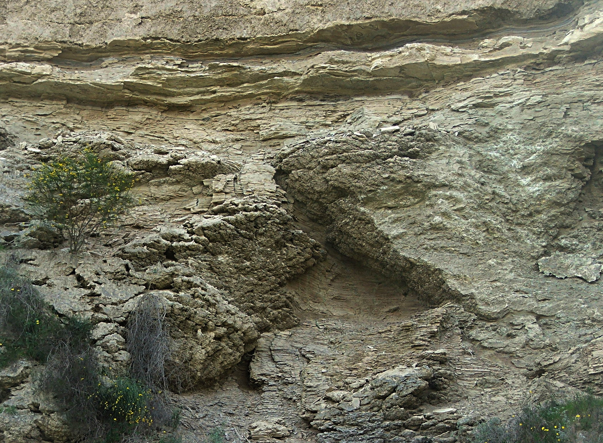 Gypsum of the Yesares member of the Sorbas basin, formed in association with the Messinian salinity crisis. The gypsum can be clearly seen to have formed at the sediment surface, forming cones separated by laminated sediments.